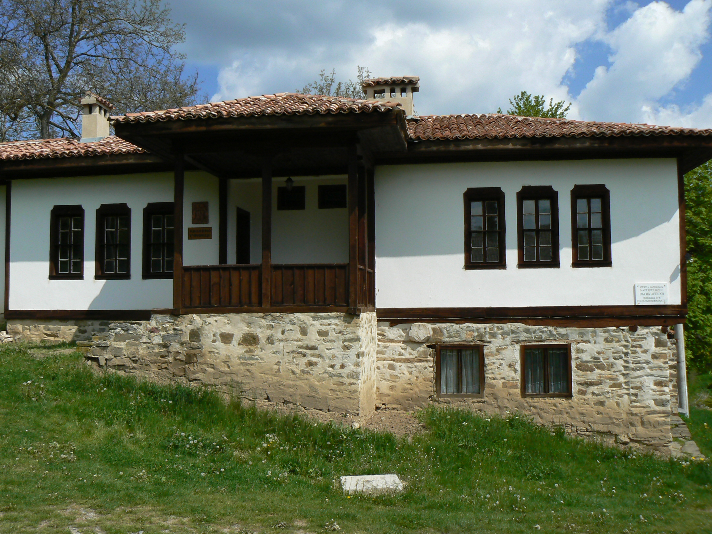 The monastery school in the church "Saint Petka" near Radibosh village, Bulgaria. According to the plaque, Vassil Levski had visited it and had established a revolutionary committee in 1870.